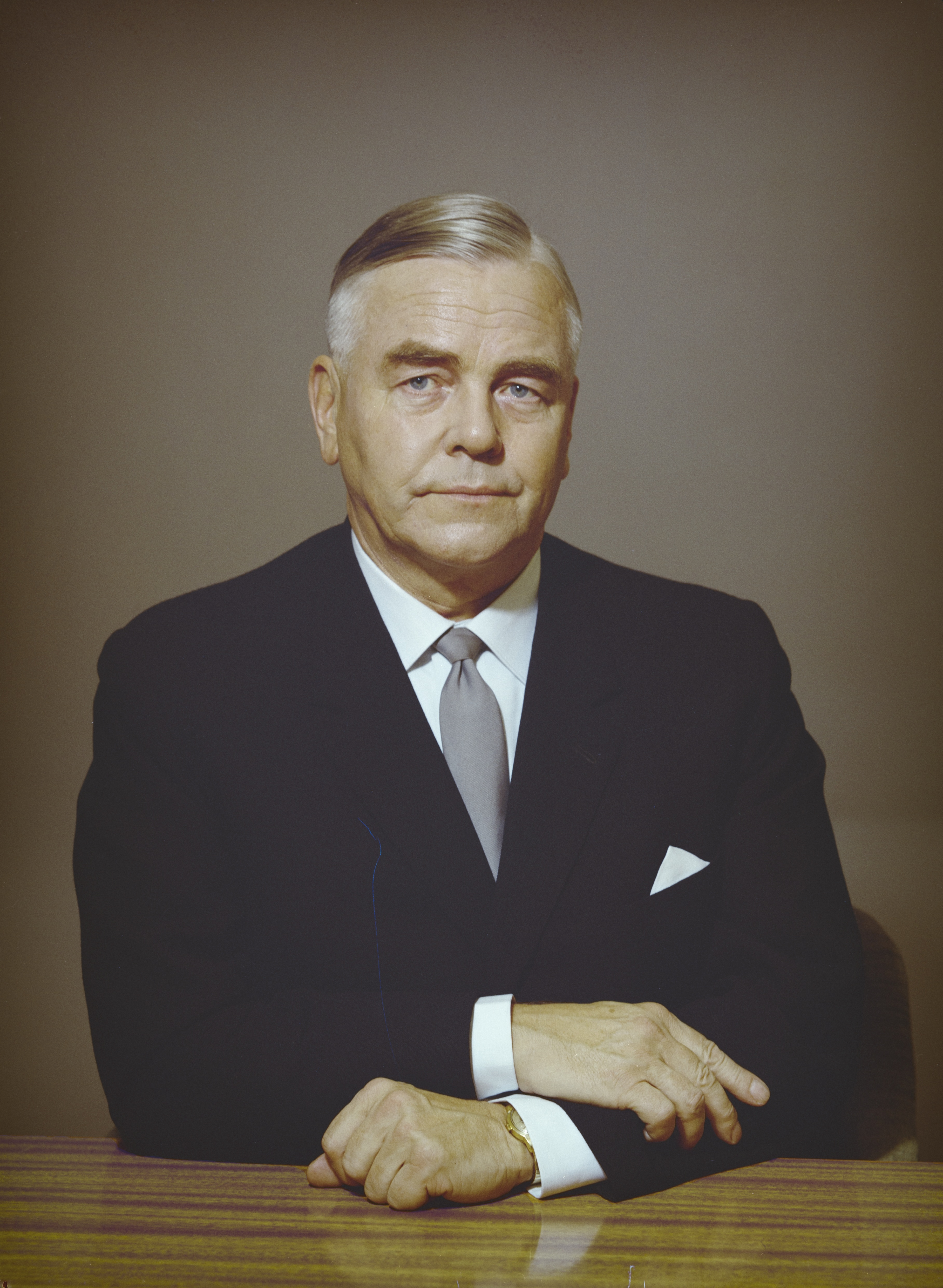 Photograph of the Finnish chief general manager Erkki Aalto (1904–1984).